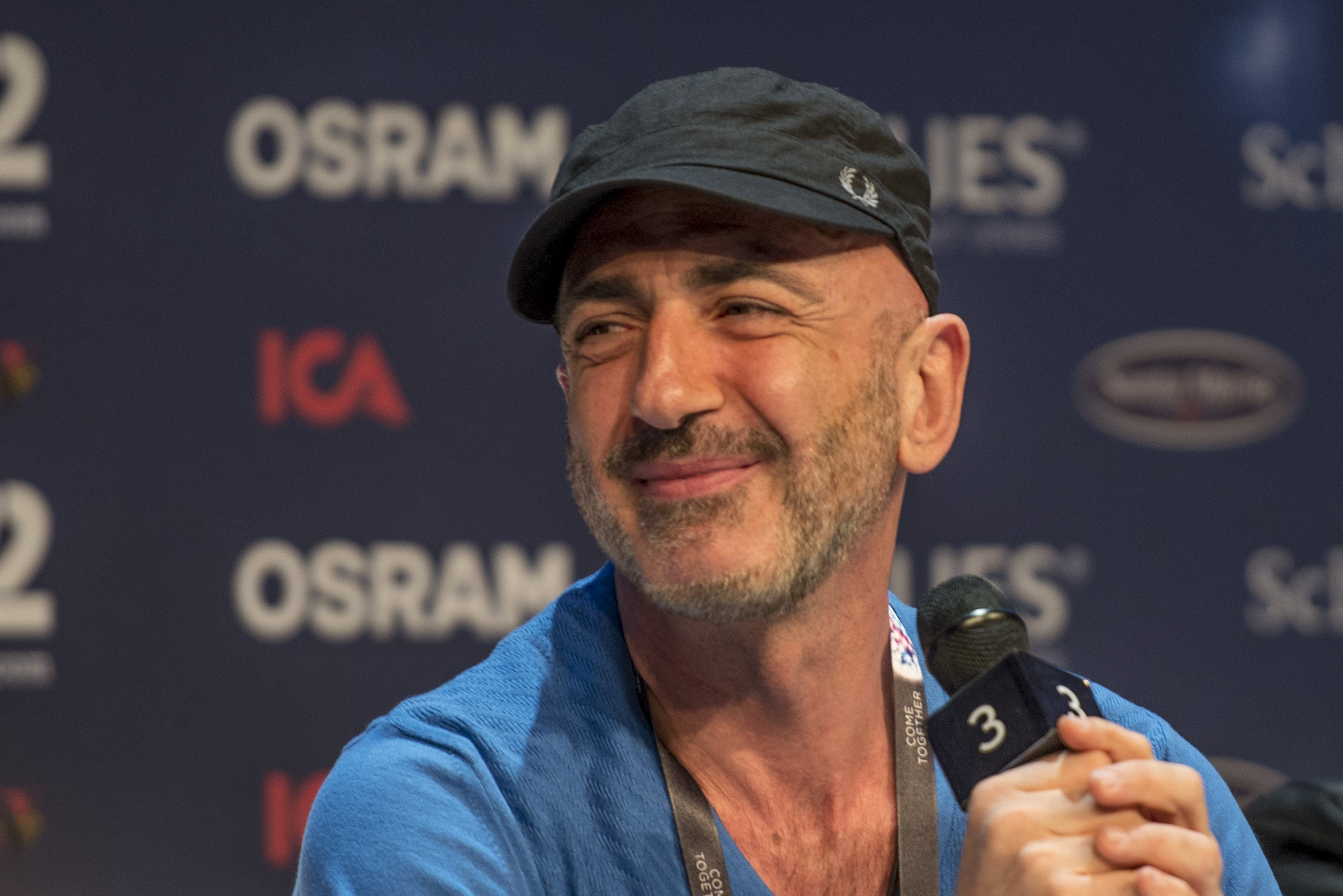 Serhat at a Meet & Greet during the Eurovision Song Contest 2016 in Stockholm. (Help translate this text)